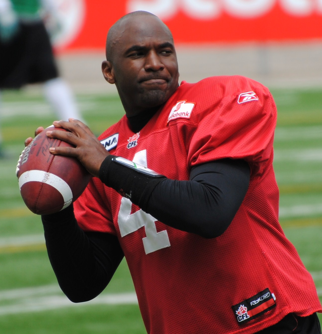 Darian Durant during a Saskatchewan Roughrider practice.